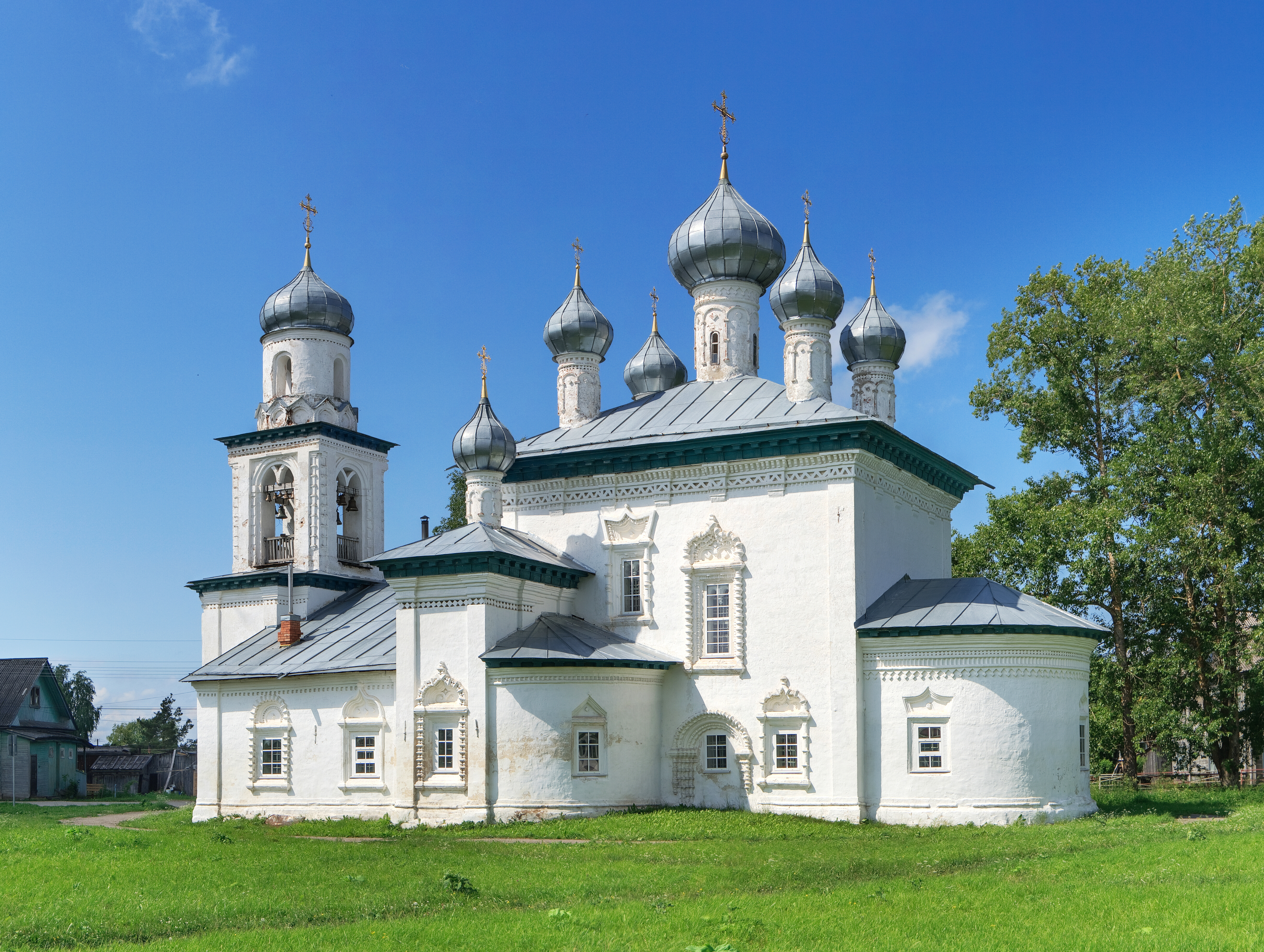 Church of the Nativity of the Theotokos, Kargopol, Arkhangelsk Oblast